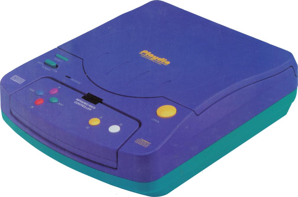 Bandai Playdia